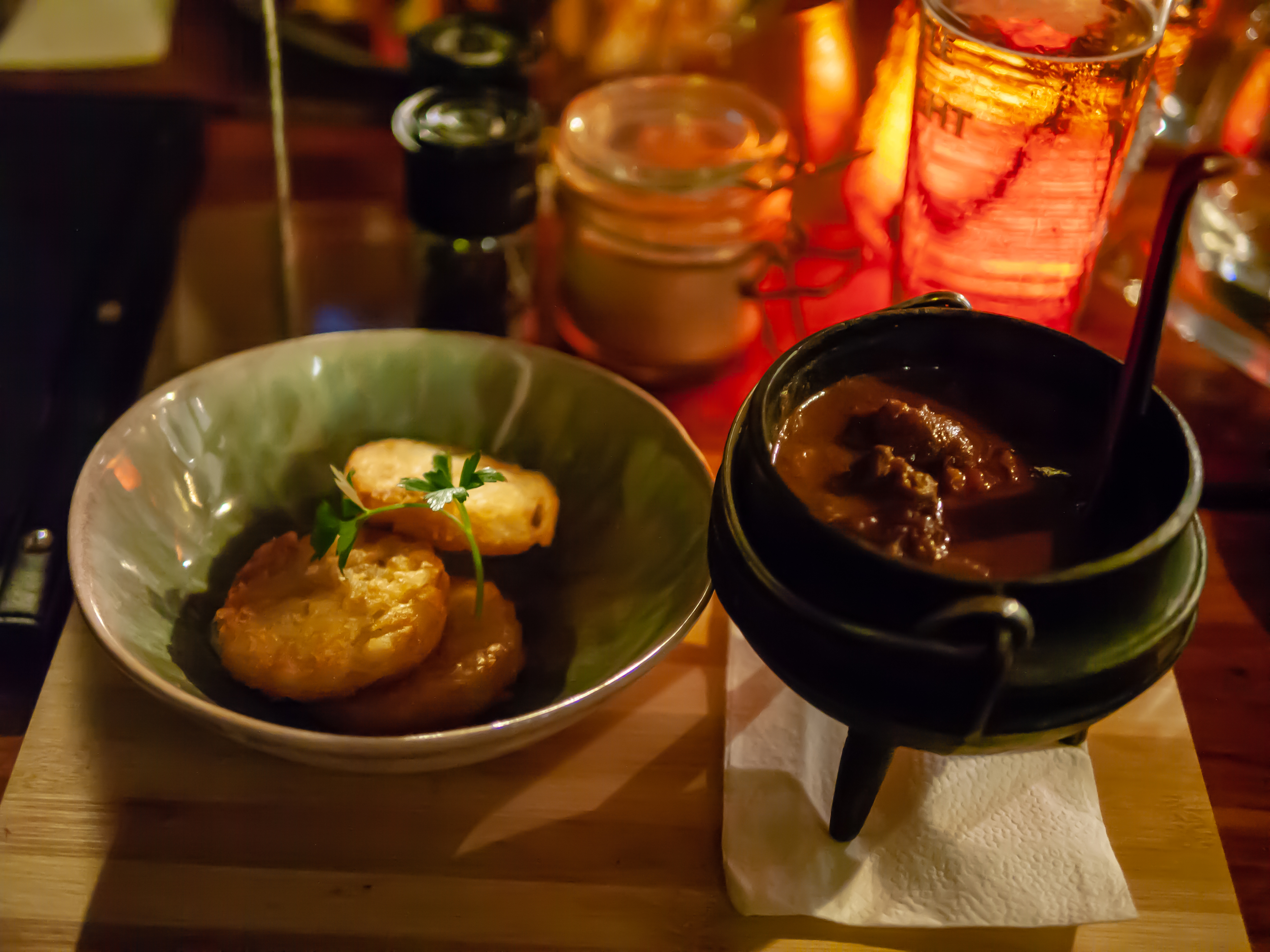 Springbok Goulash, Cape Town